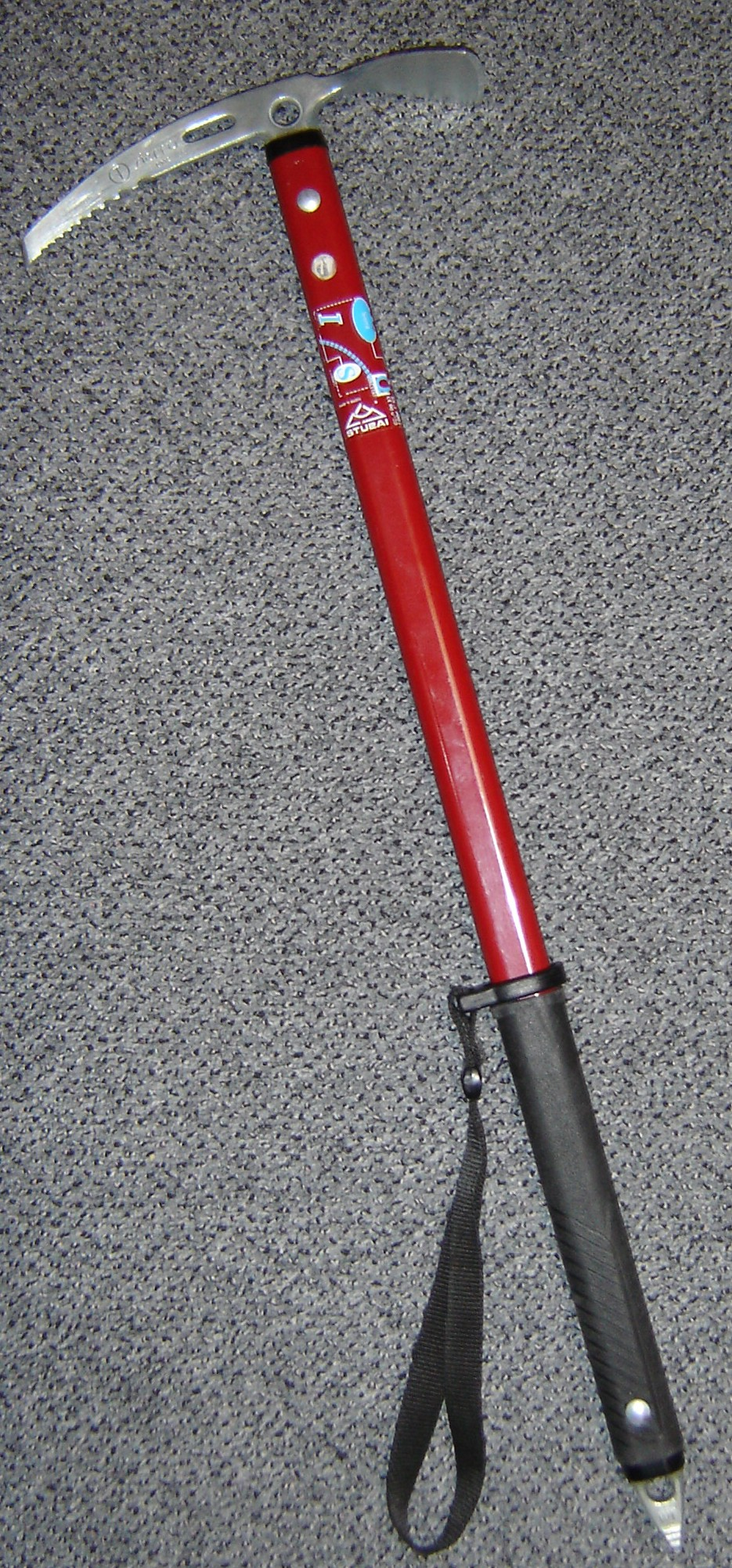 Ice axe